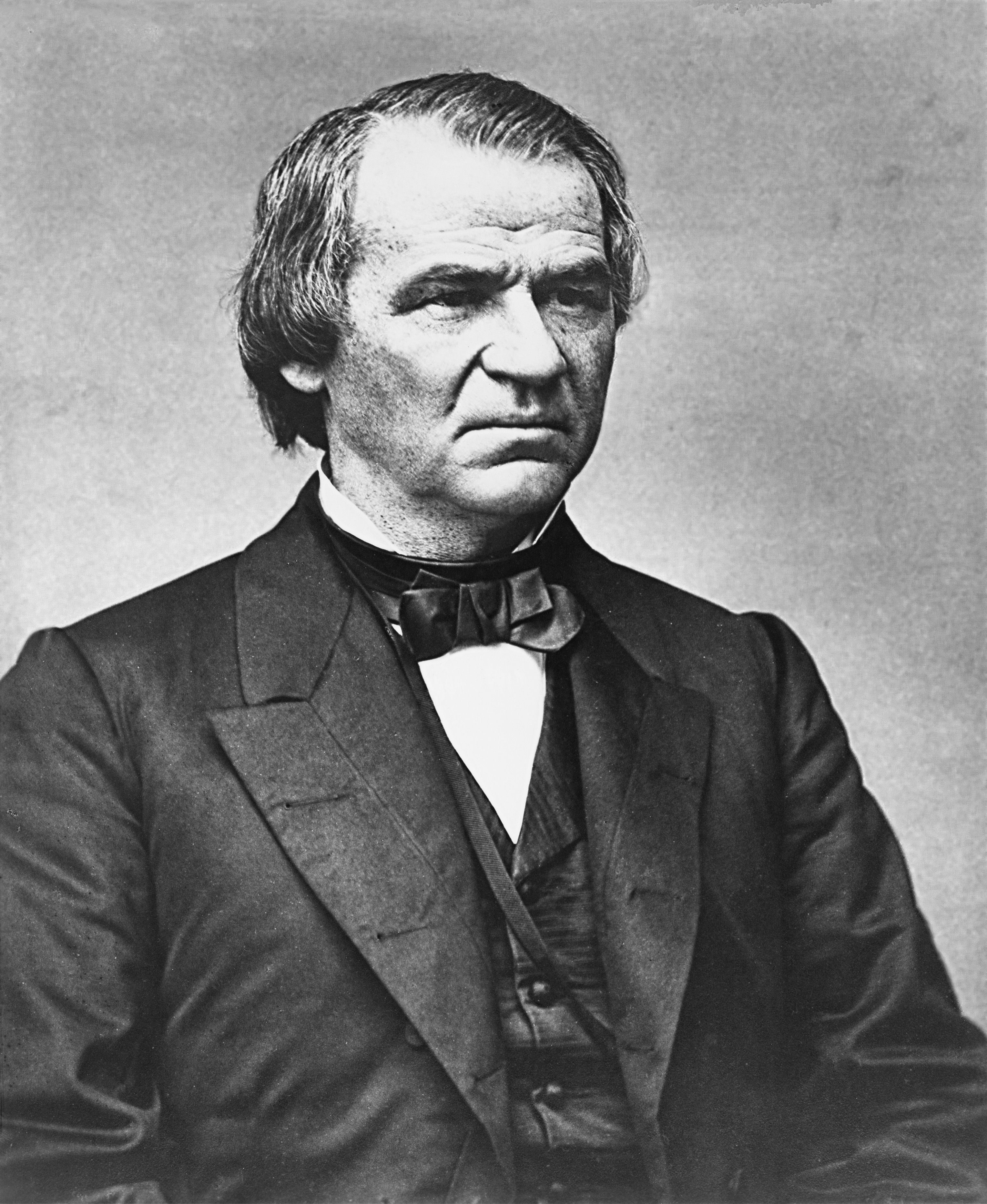 The Portrait of United States President Andrew Johnson was taken on June 16, 1865, (2 months after the assassination of Abraham Lincoln).